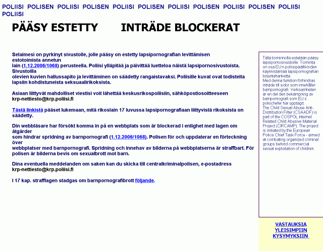 Captive portal splash screen blocking access to Finnish anti-censorship site